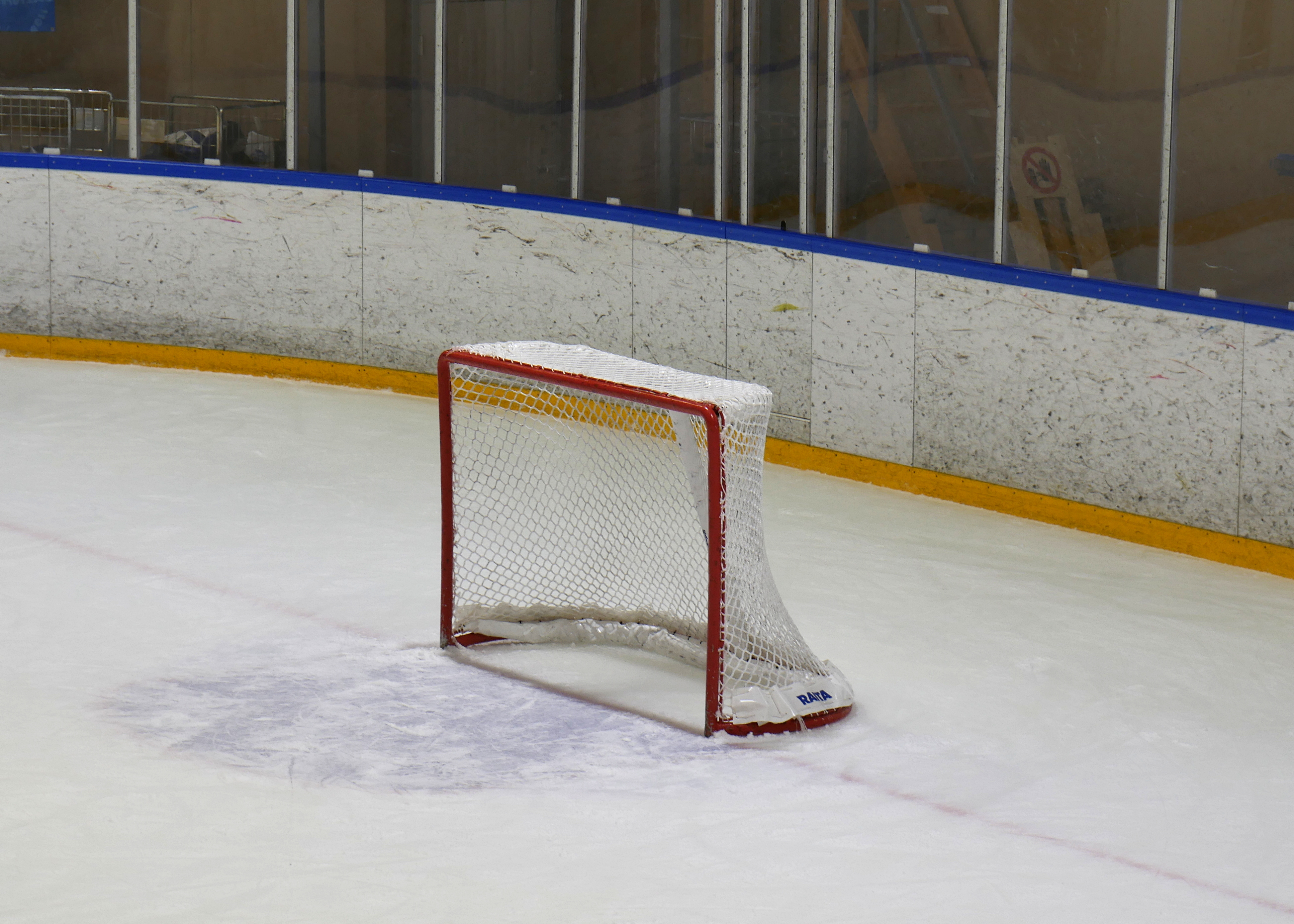 Ice hockey goal